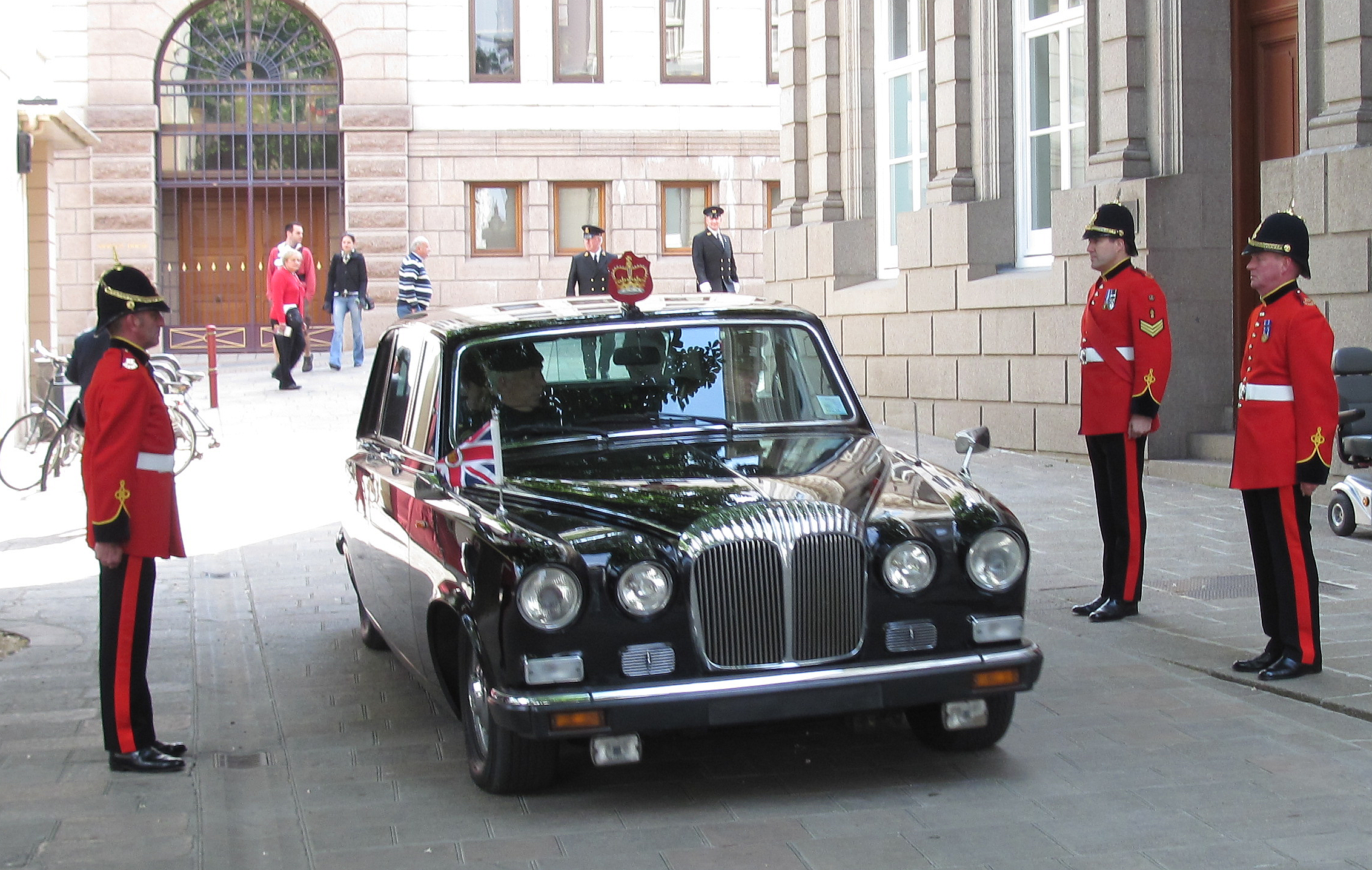 Liberation Day, 9 May 2010, Jersey